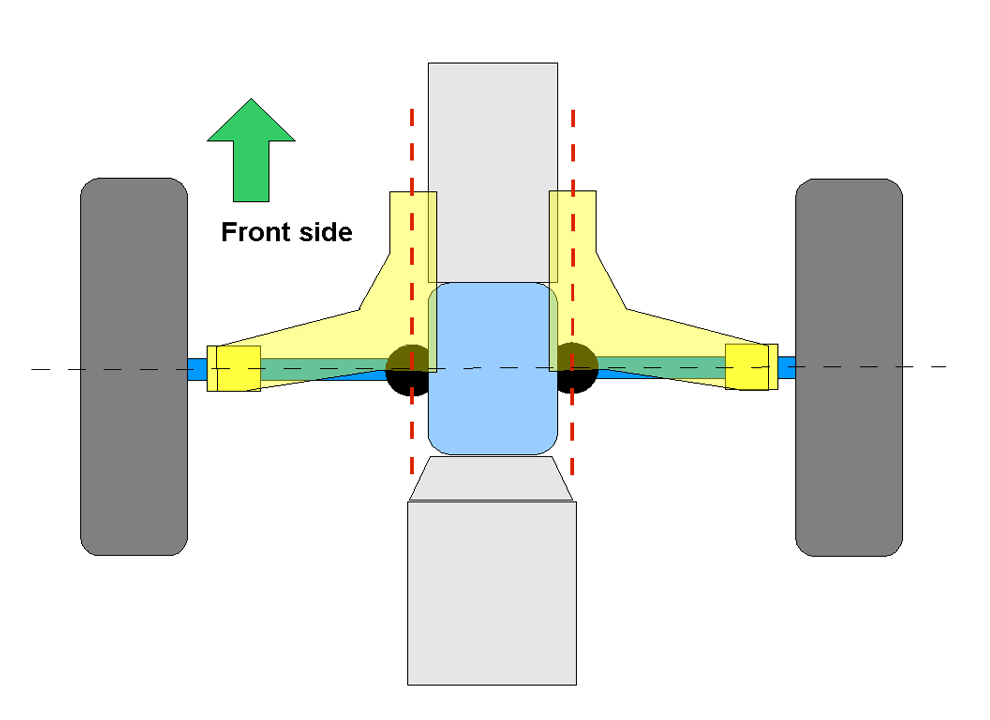 A schematic view of a Swing axle suspension.